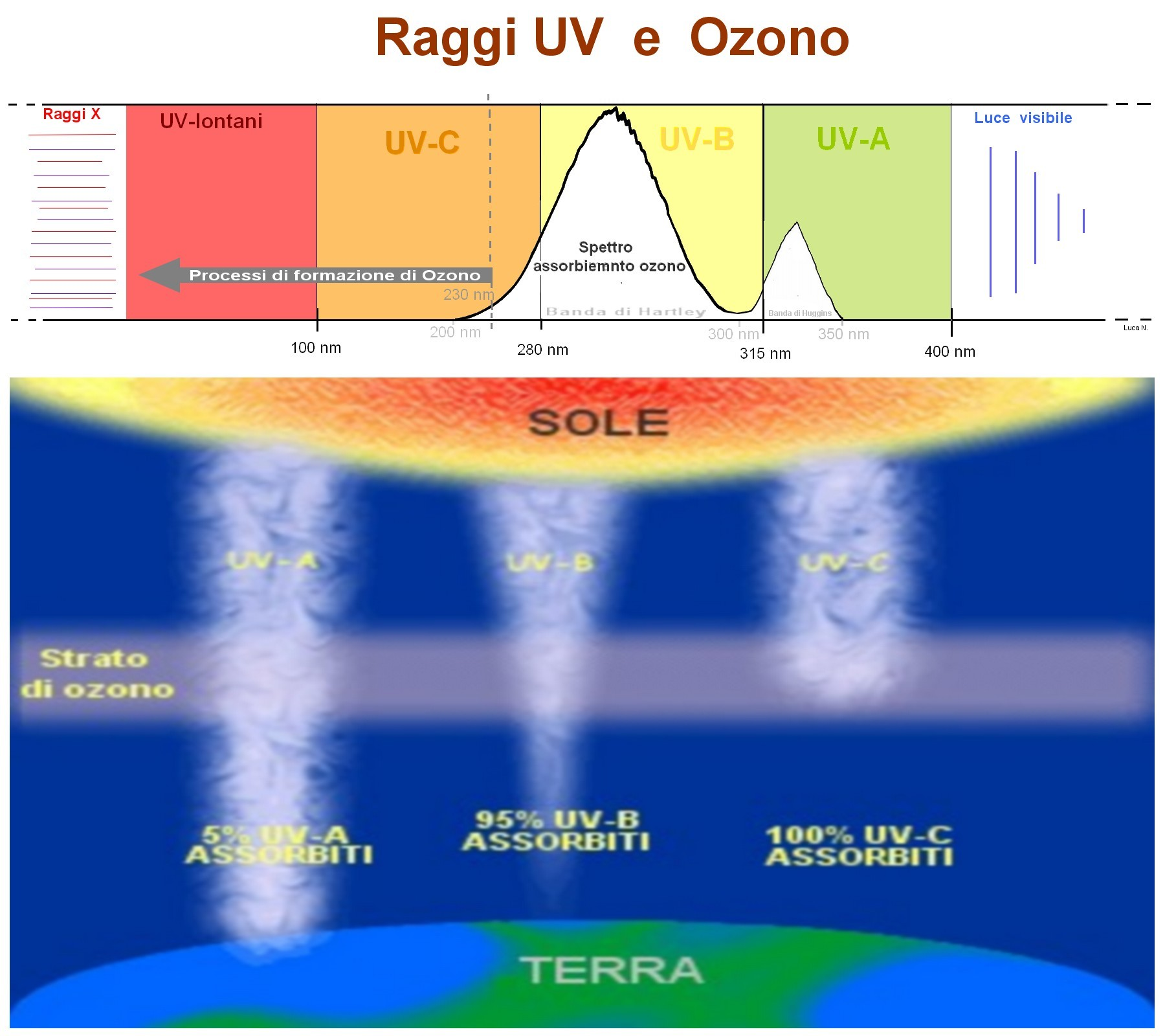 Rays Uv and Ozone